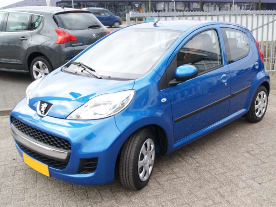 Peugeot 107, 5drs, version 2010